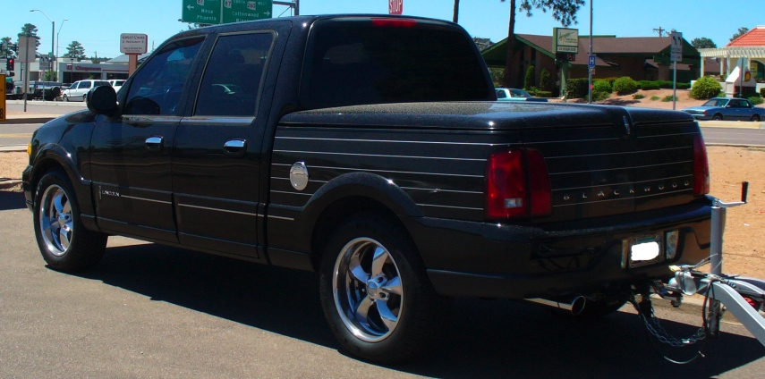 Lincoln Blackwood Rear